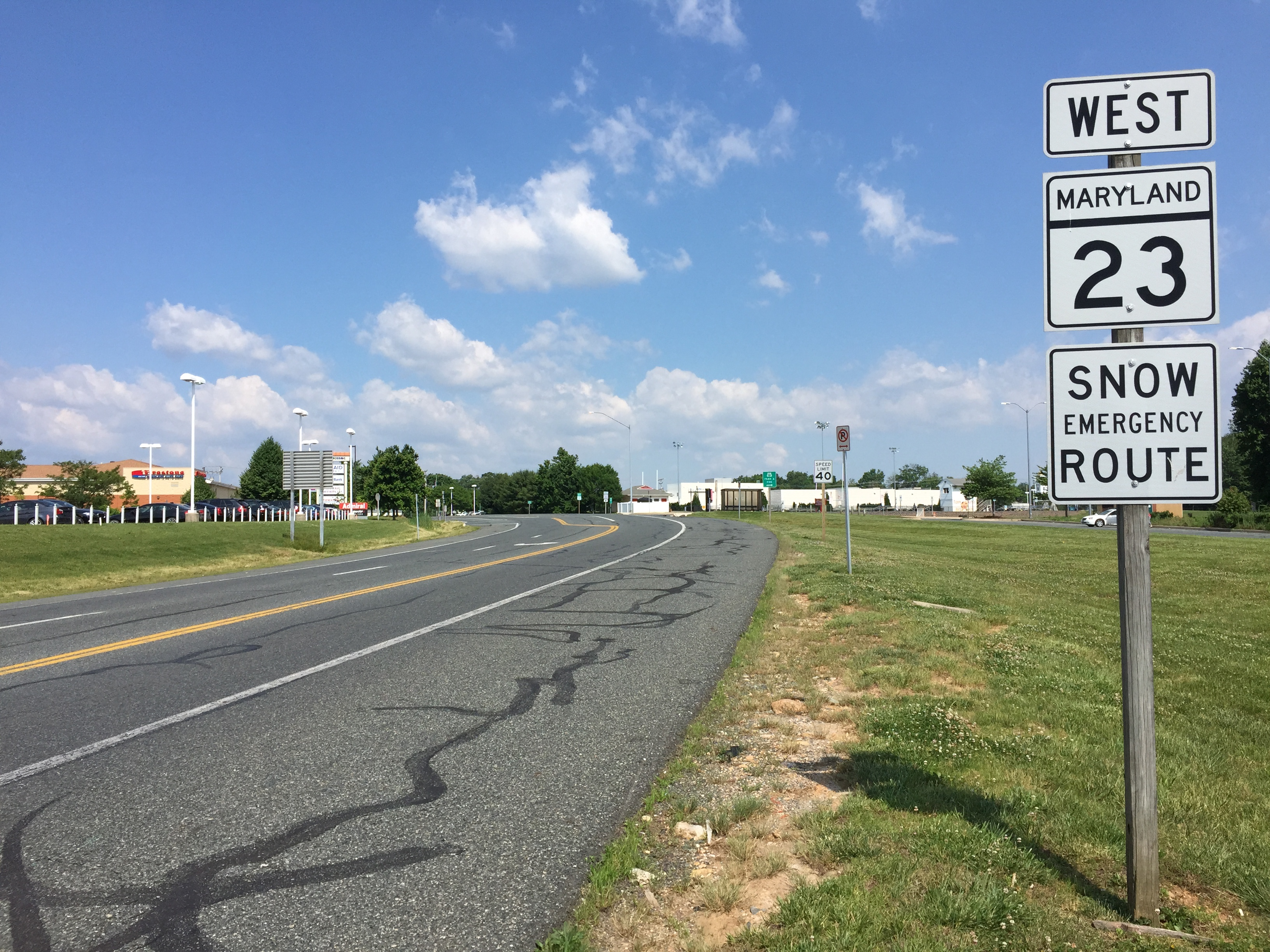 View west along Maryland State Route 23 (East-West Highway) just west of U.S. Route 1 (Hickory Bypass) in Bel Air North, Harford County, Maryland